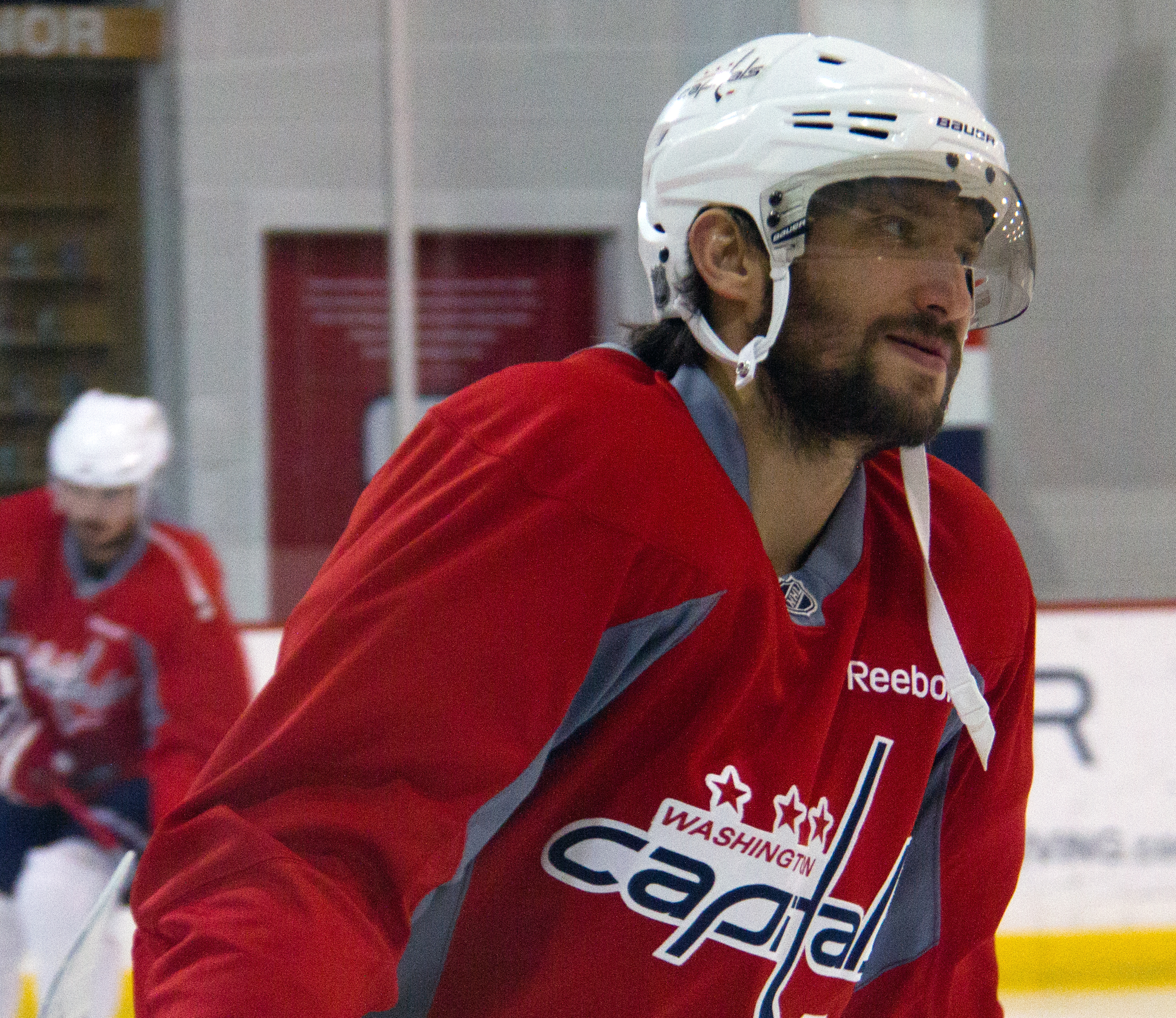 Capitals practice session at Kettler Ice Center